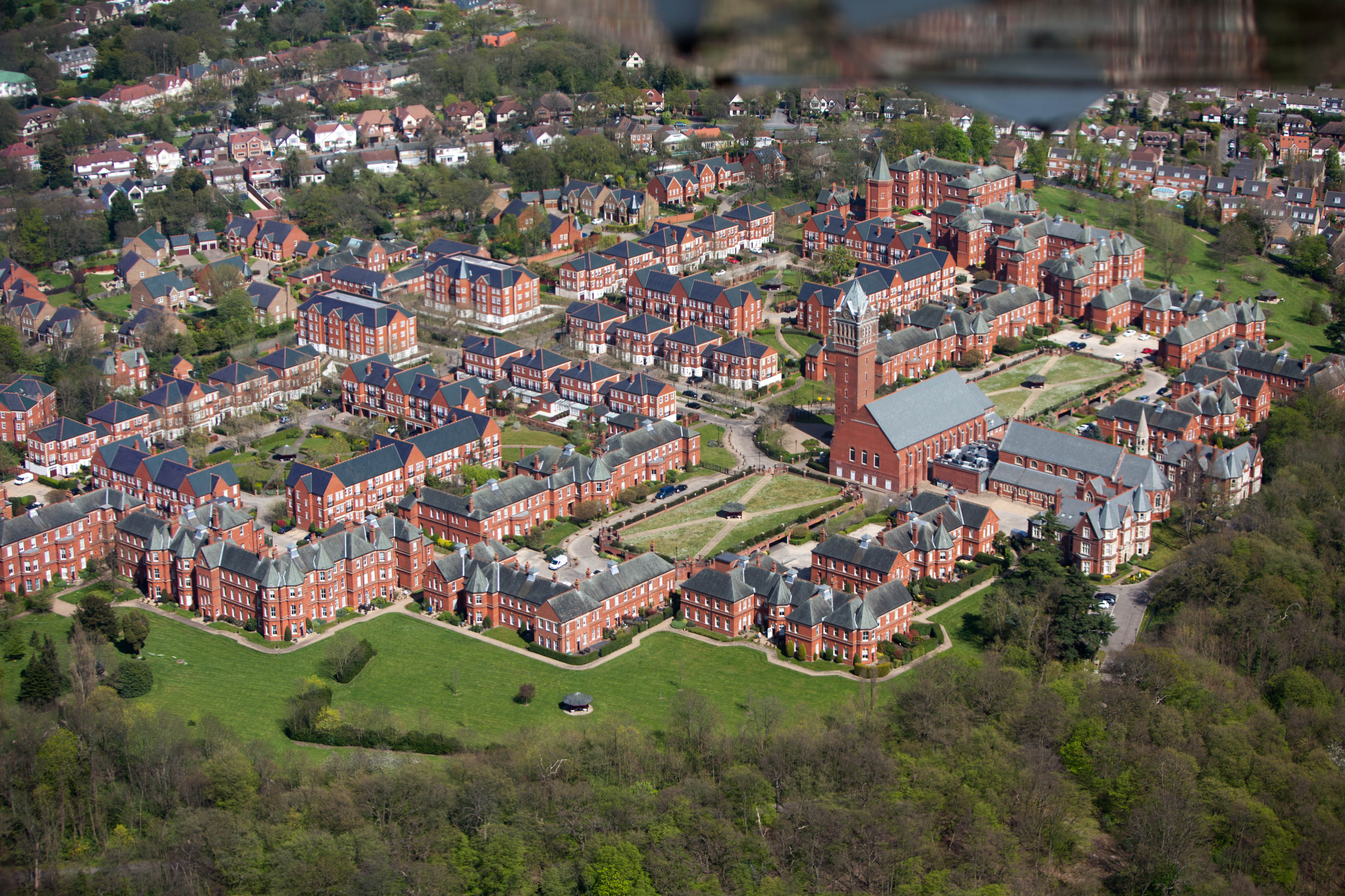 Claybury Mental hospital, or London County Lunatic Asylum, Ilford, until 1997, now converted into luxury flats called Repton Park. According to there have been many sightings of ghosts here.